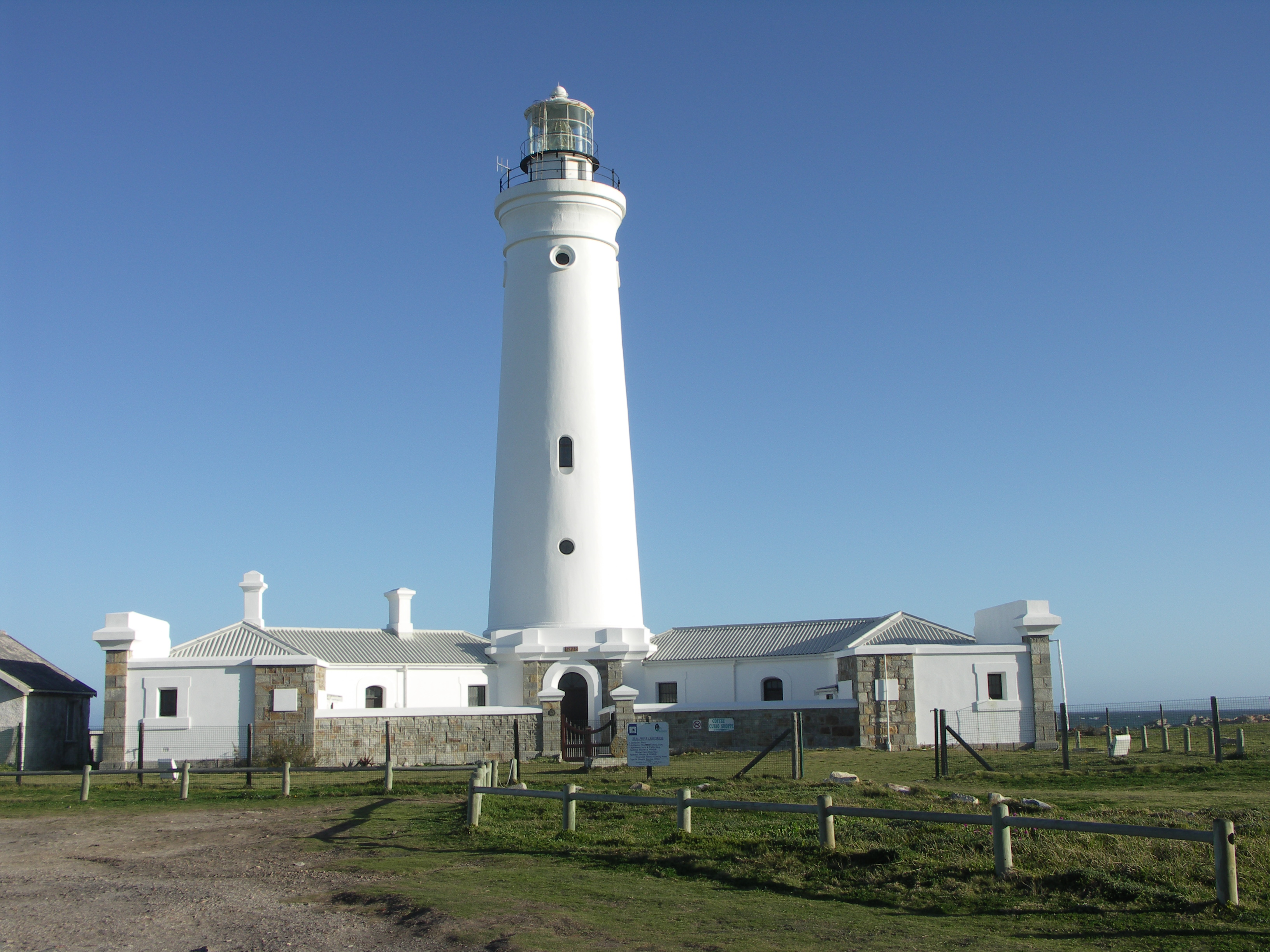 Seal Point Lighthouse, Cape St. Francis, Eastern Cape, South Africa.